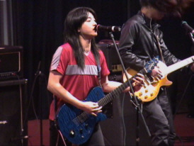 This photograph of Gao Qi and his lead guitarist Li Yanliang of the Overload Band shot with a DV camera in October of 2000 at during a show at the Beijing Youdian Telecommunications University. G